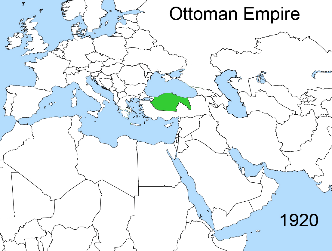 Territorial changes of the Ottoman Empire